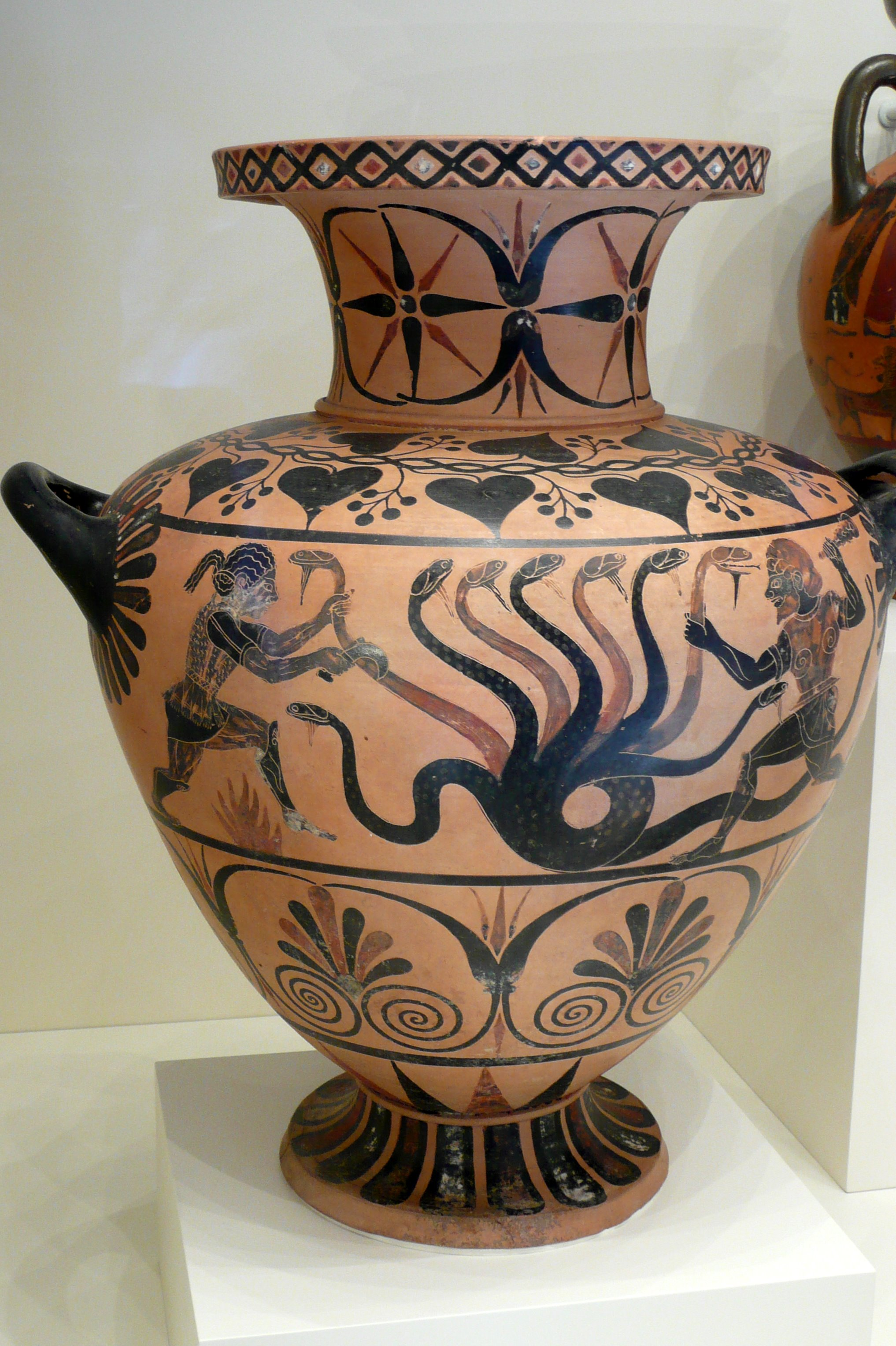 On the belly: Herakles, Iolaos, and the Lernean Hydra; two sphinxes on the reverse; and a crab under the horizontal handle. Etruscan pottery — at the Getty Villa, Los Angeles, California.